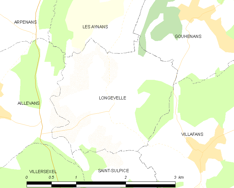 Map of French municipality